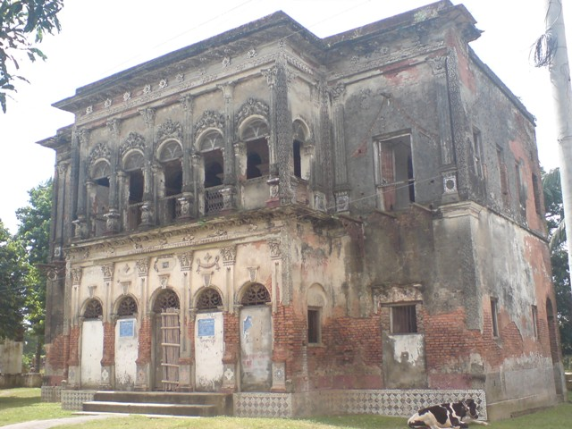 Several hundred years old city building at Sonarga, Narayangang Bangladesh.